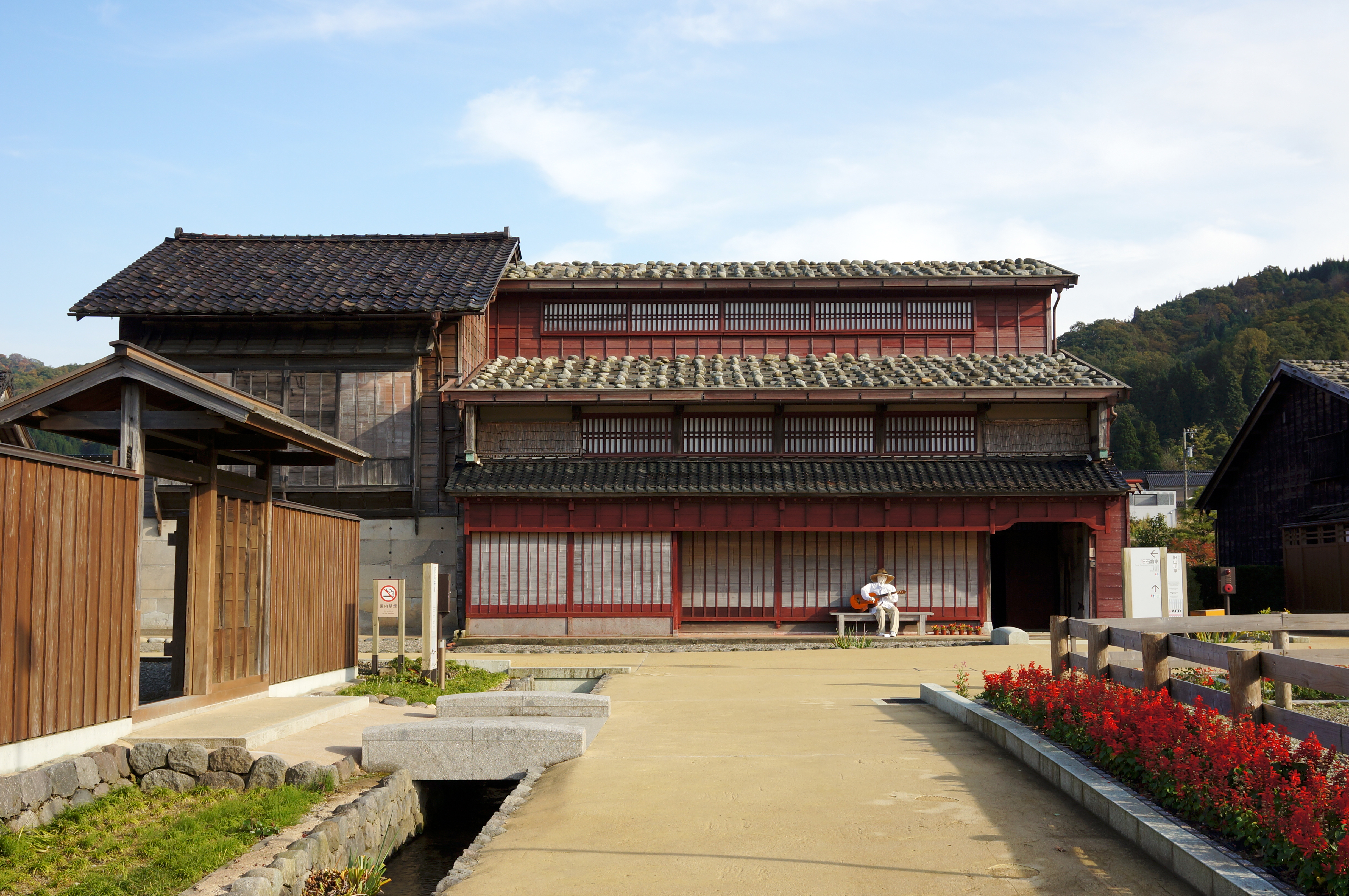 At Kanazawa Yuwaku Edomura in Kanazawa, Ishikawa prefecture, Japan.